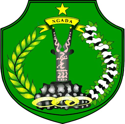 Seal of Ngada regency